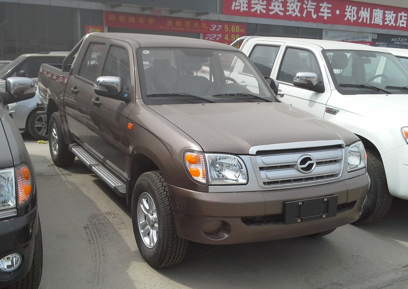 Zhongxing Grand Tiger photographed in Zhengzhou, Henan province, China.